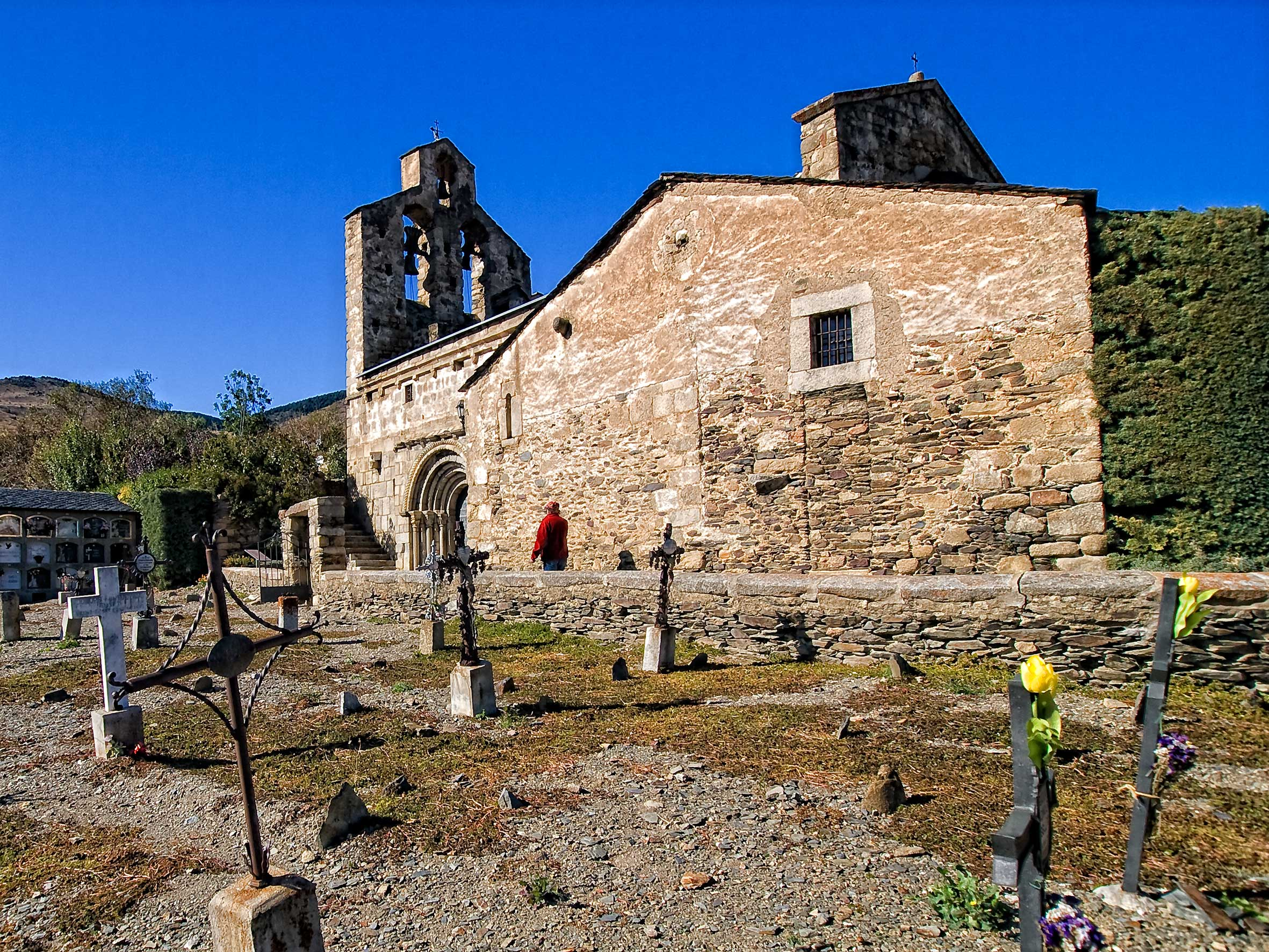 Sant Esteve de Guils church from Cerdanya (Catalonia, Spain)